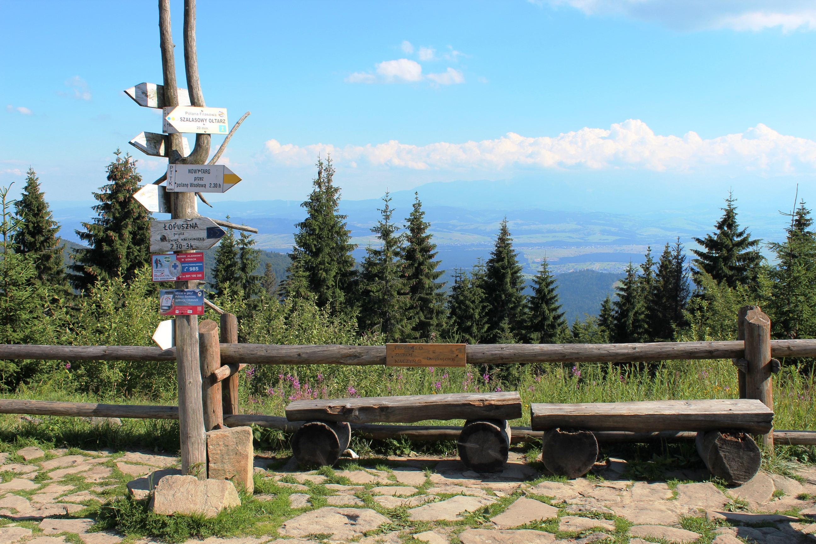 Turbacz mountain hut